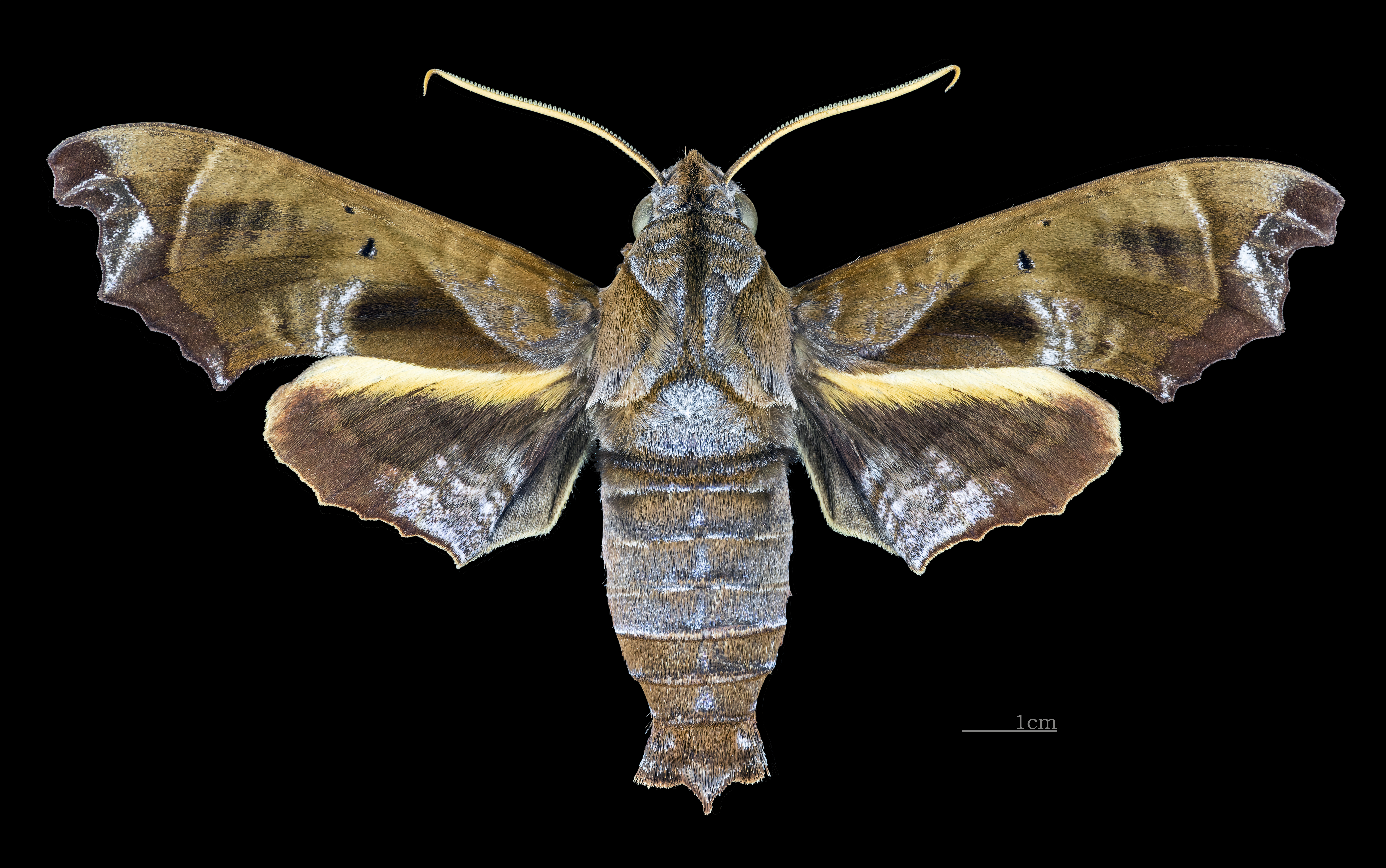 Nyceryx tacita - Dorsal side Collection of the Mathematician Laurent Schwartz